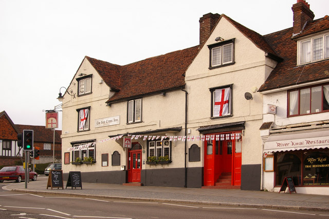 The Red Cross Inn Late 16th century Grade II listed pub, named after the medieval Chapel of the Holy Cross which stood nearby. For listing particulars The name of the pub gave a useful excuse to waive the red flag of St George for St George's Day.